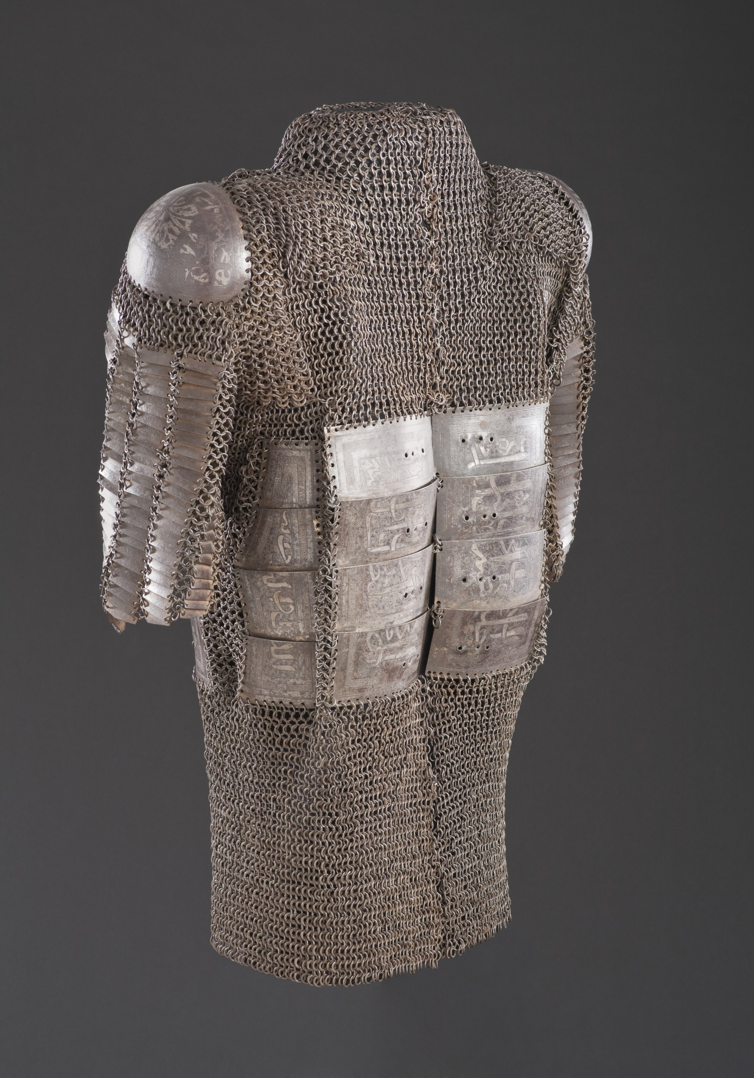 Persian mail and plate shirt, someone mistakenly put a pair of dizcek (cuisse or knee and thigh armor) on the shoulders. Iran, 16th-17th century Arms and Armor Steel with silver inlay The Nasli M. Heeramaneck Collection, gift of Joan Palevsky (M.73.5.729a-j) Islamic Art